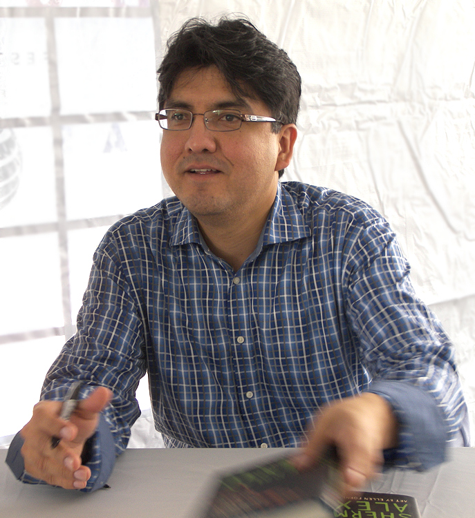 Author Sherman Alexie at the 2007 Texas Book Festival, Austin, Texas, United States. Alexie won the 2007 National Book Award for Young People's Literature for his book The Absolutely True Diary of a Part-Time Indian.